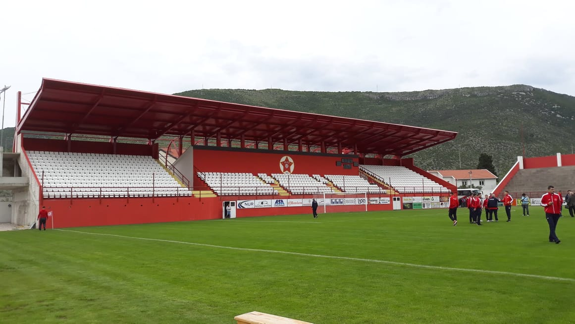 2019 picture of the western stand of the Stadion Rođeni, previously known as Vrapčići